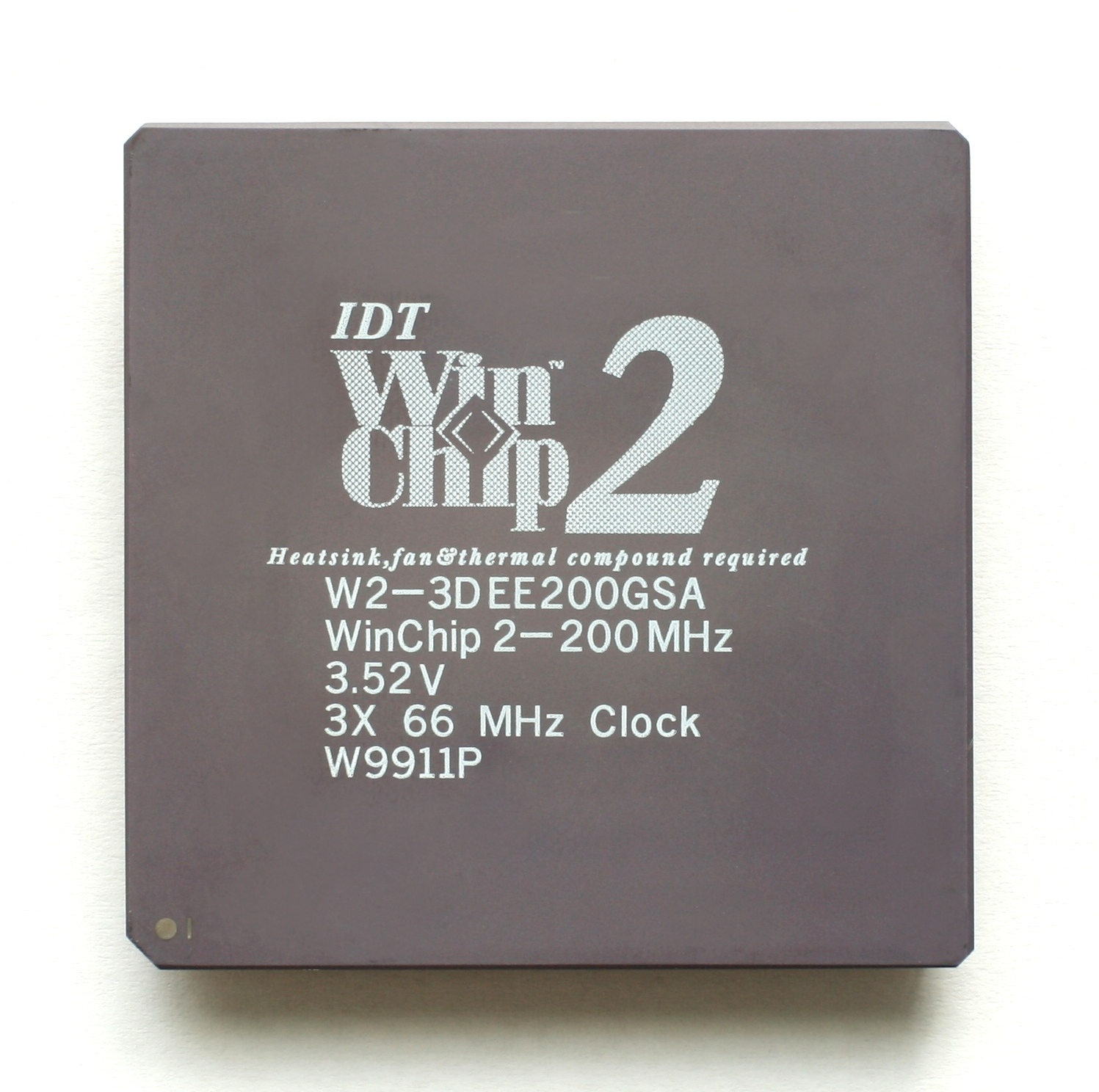 CPU IDT WinChip 2.